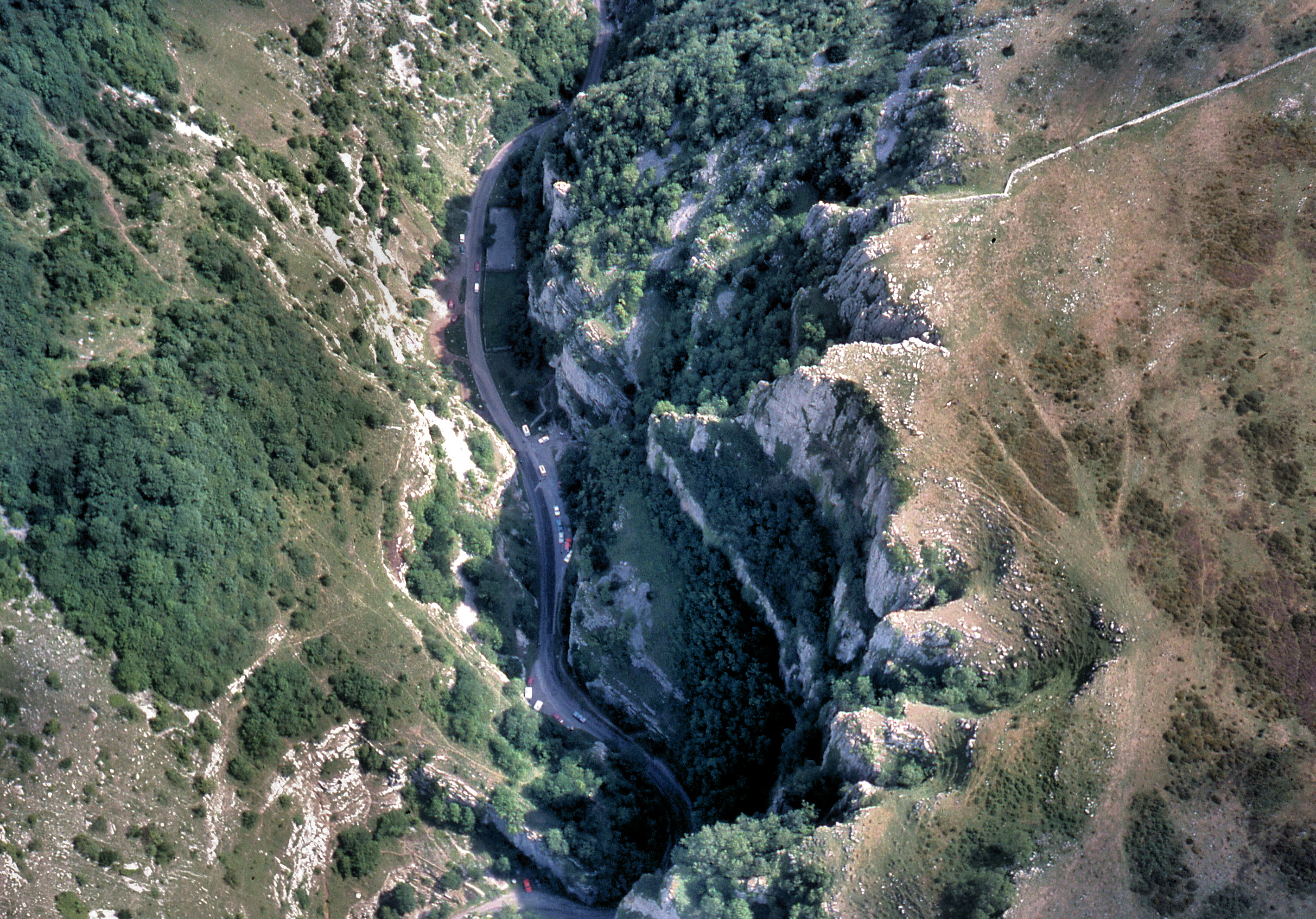 Part of Cheddar Gorge, Somerset, England, seen from a light aircraft.